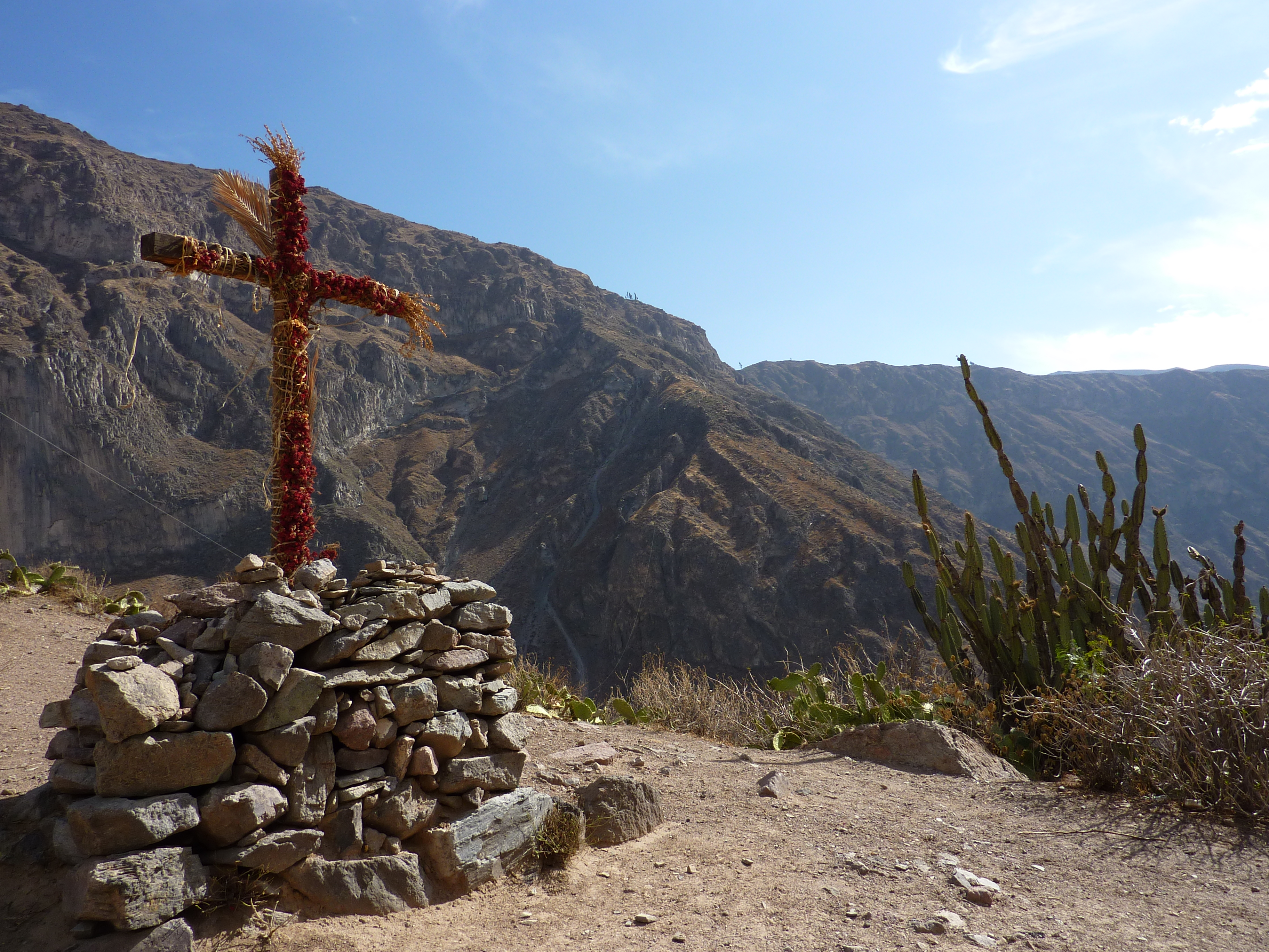 Cross with geraniums flowers, Malata, Cabanaconde, Peru